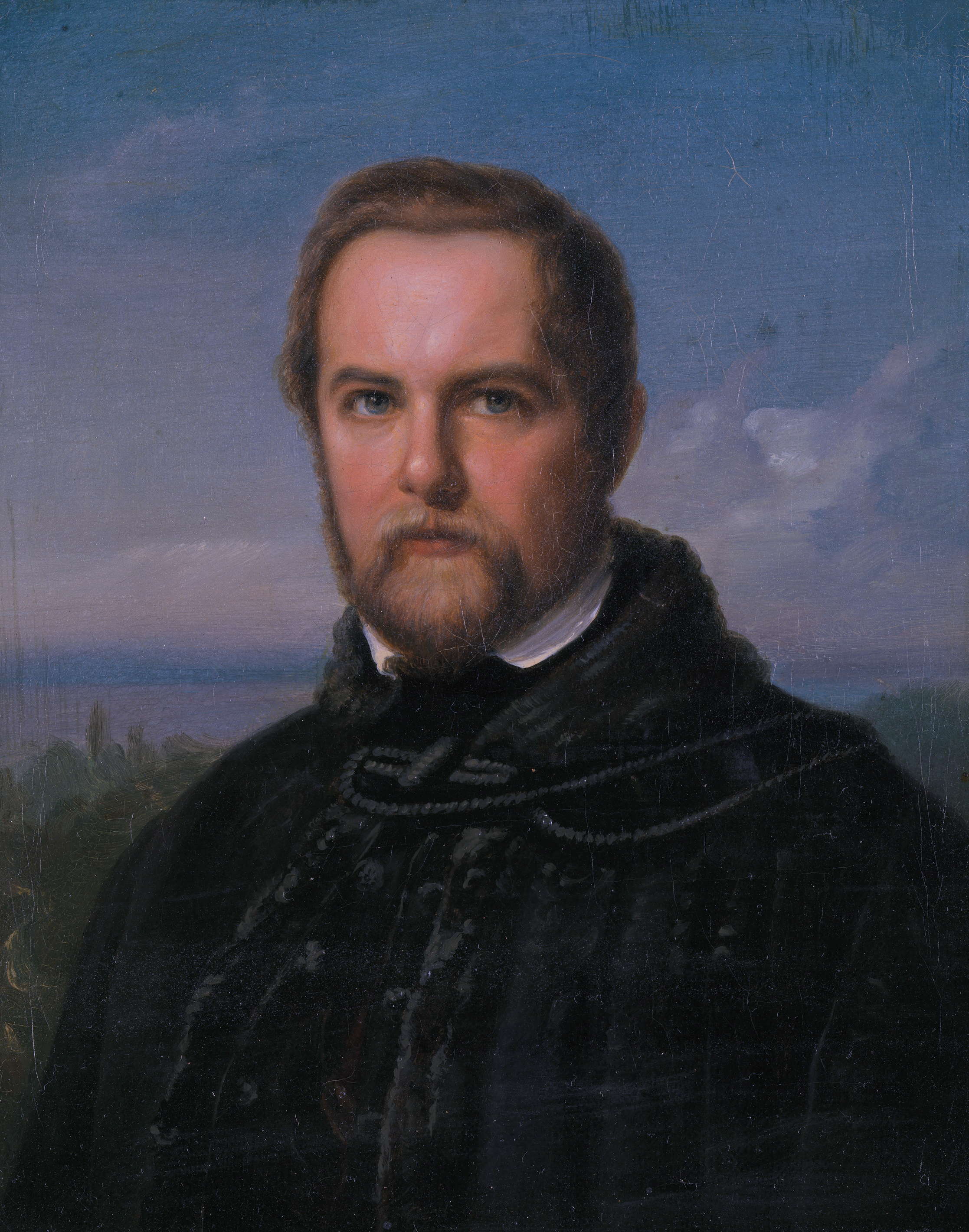 Johann Wilhelm Schirmer oil on canvas 21 x 17 cm